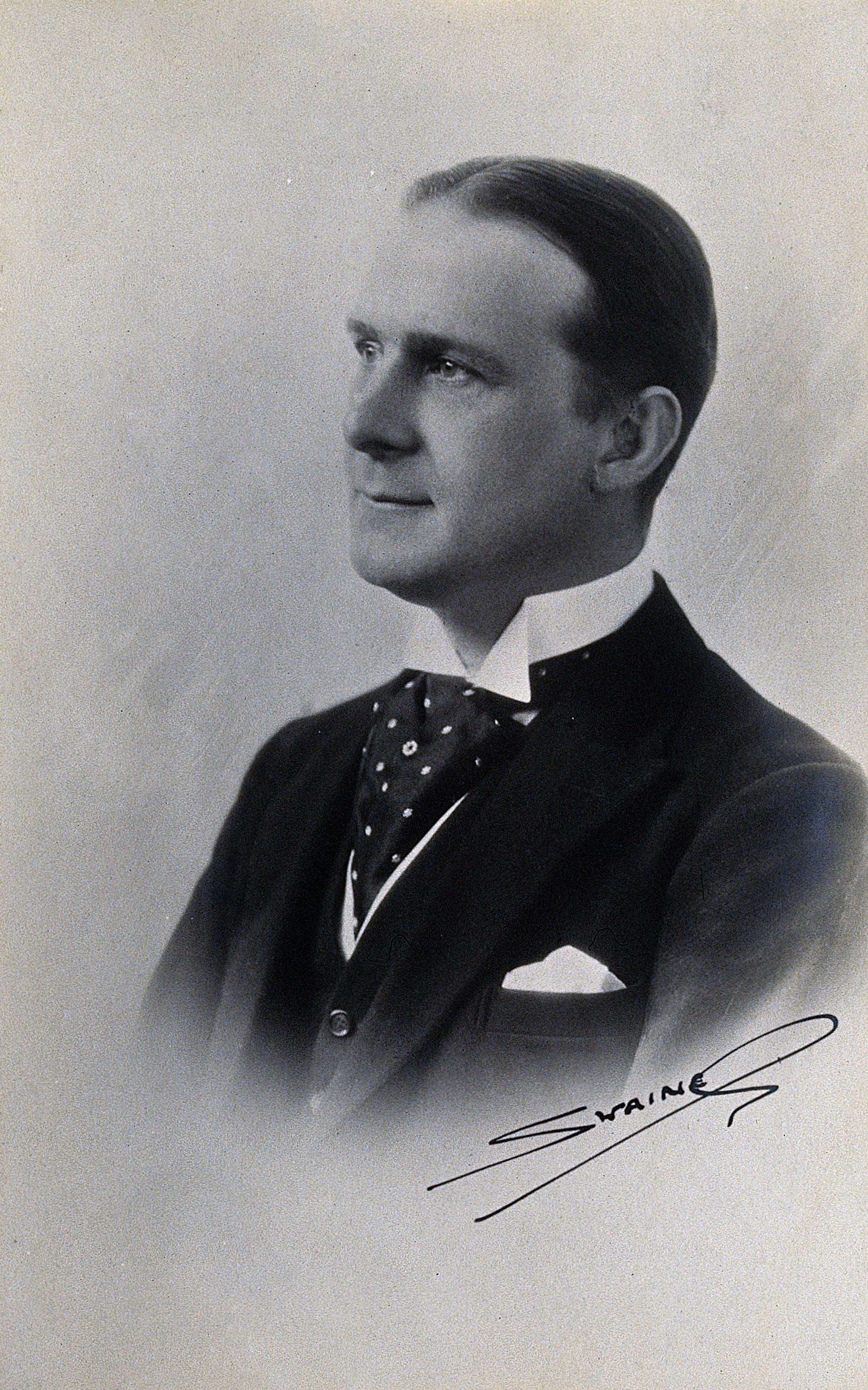 Septimus Warwick. Photograph by Swaine. Iconographic Collections Keywords: portrait photographs